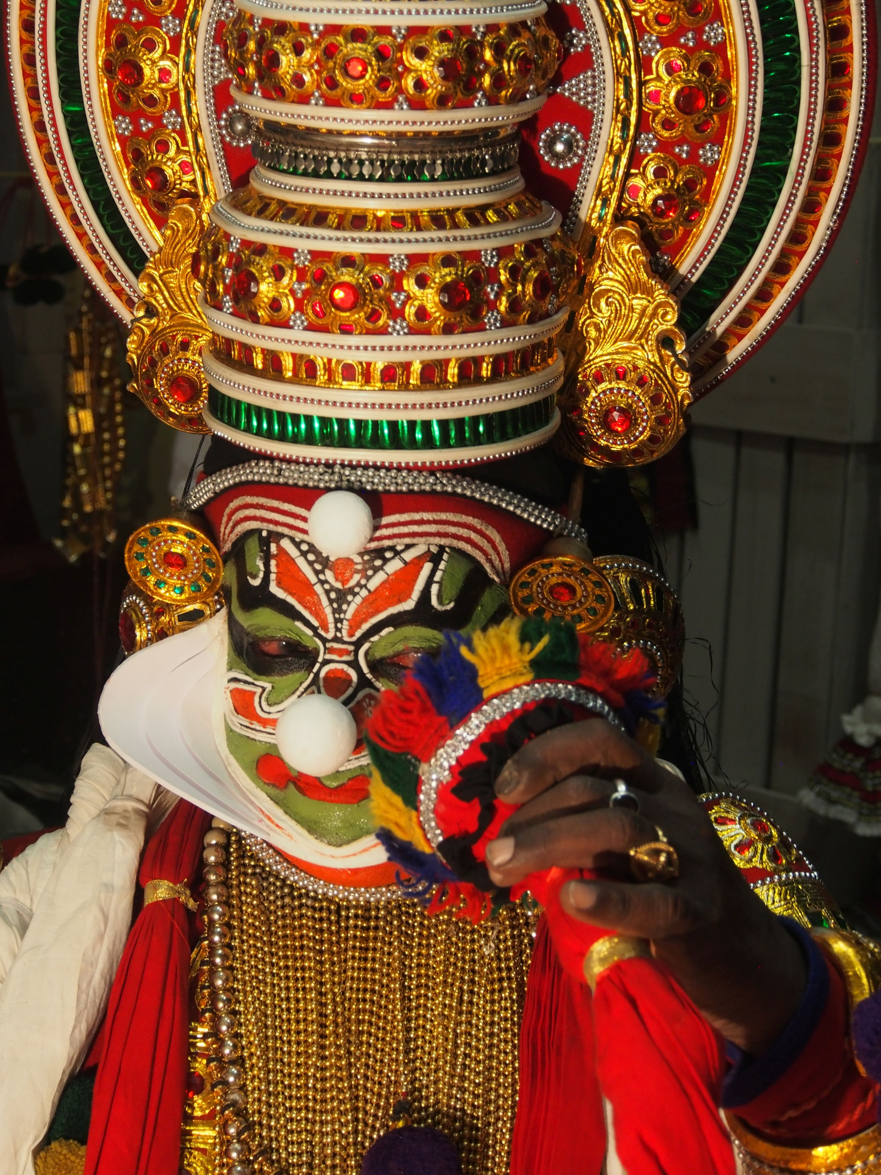 Sadanam Krishnankutty in green room as Narakasura